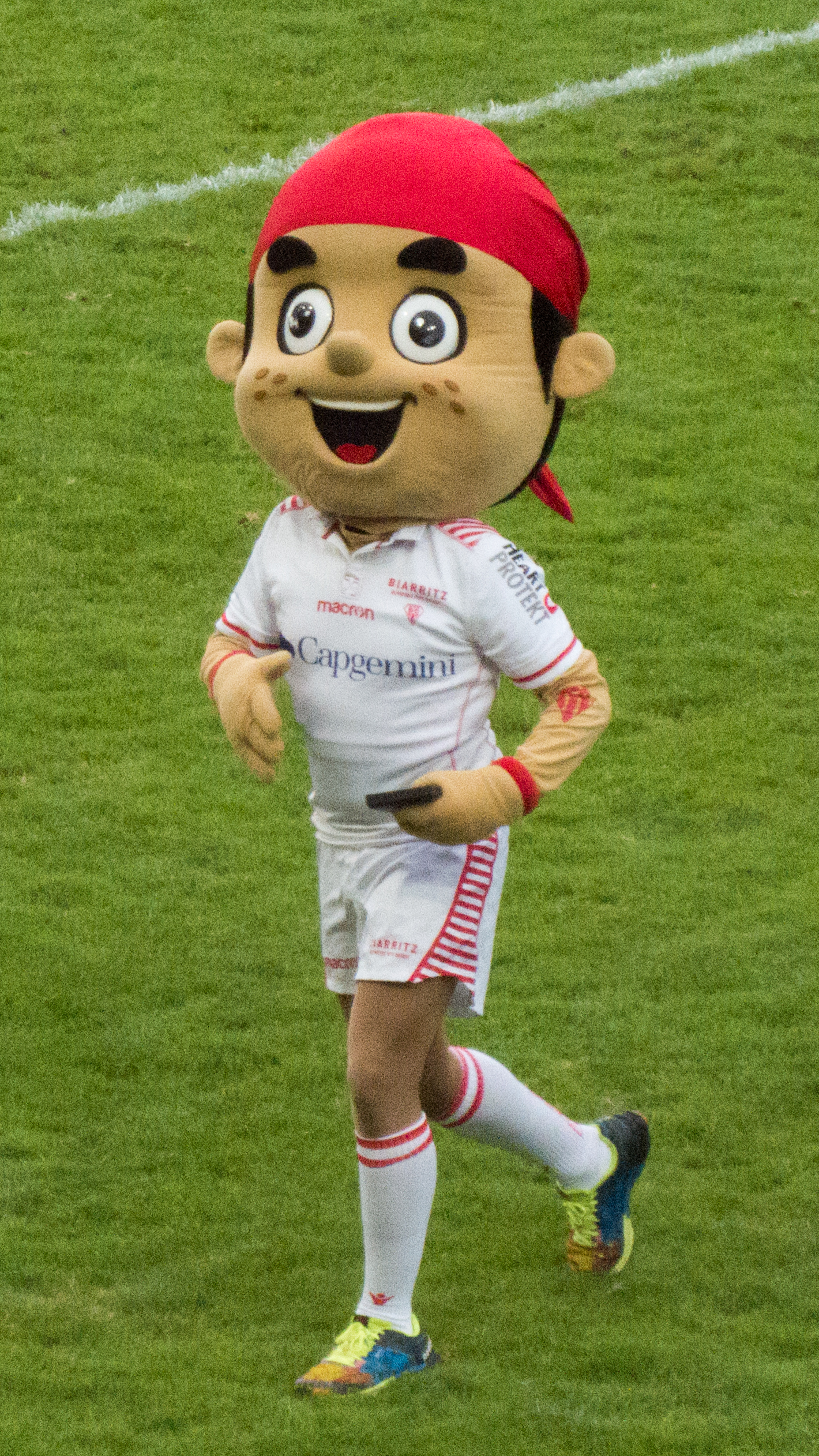 rugby union friendly match — 10 August 2017, parc des sports d'Aguiléra. Match between: Biarritz Olympique — US Dax